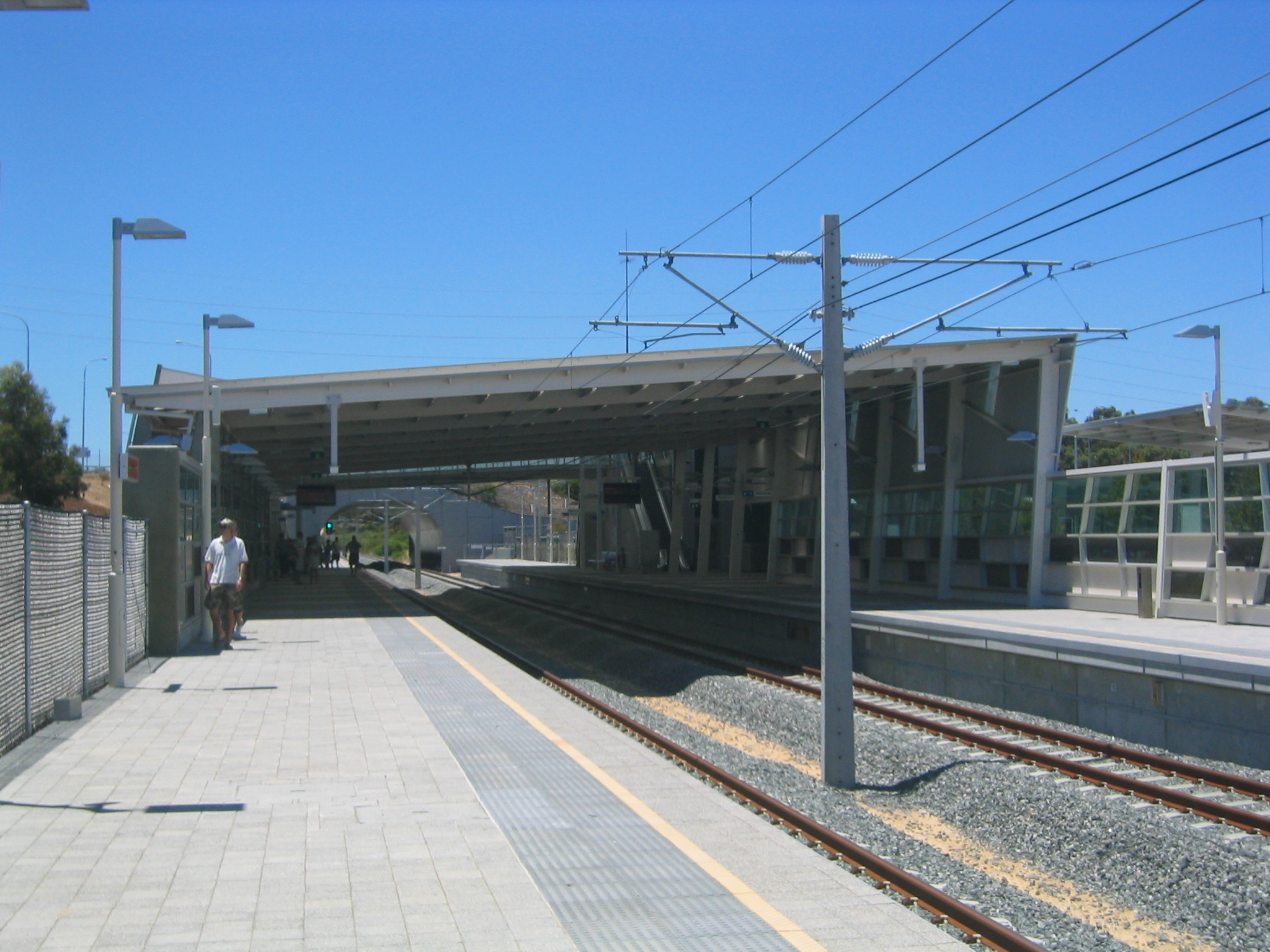 The platforms of Warnbro Station, taken from the platformm level of its station.